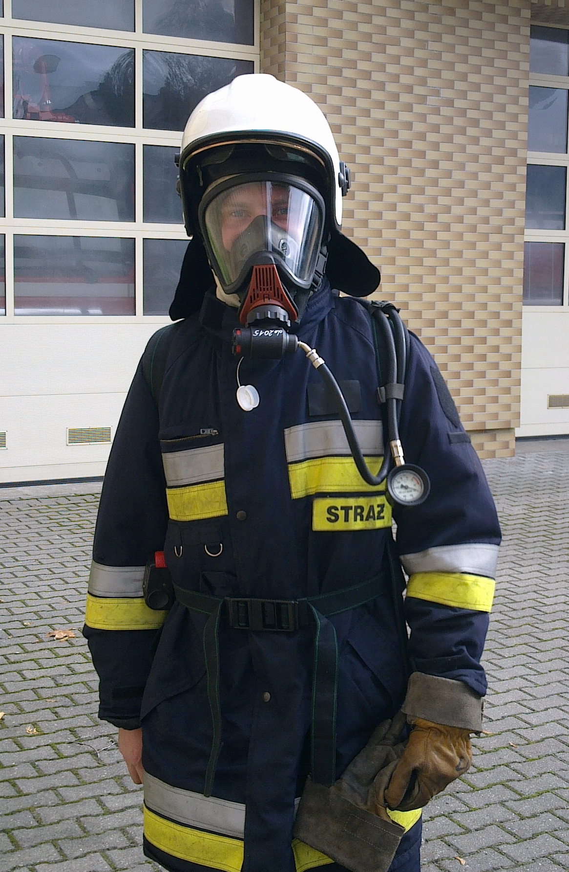 Fire fighter in breathing mask.